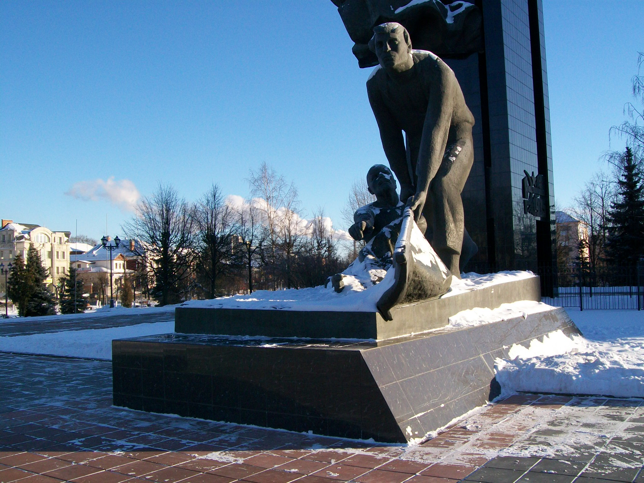 Ivanovo, Russia, Revolution square